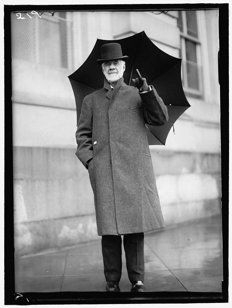 DAVIS, HENRY GASSAWAY. SENATOR FORM WEST VIRGINIA, 1871-1883; CHAIRMAN, PAN AMERICAN RAILWAY COMMISSION, 1901-1916